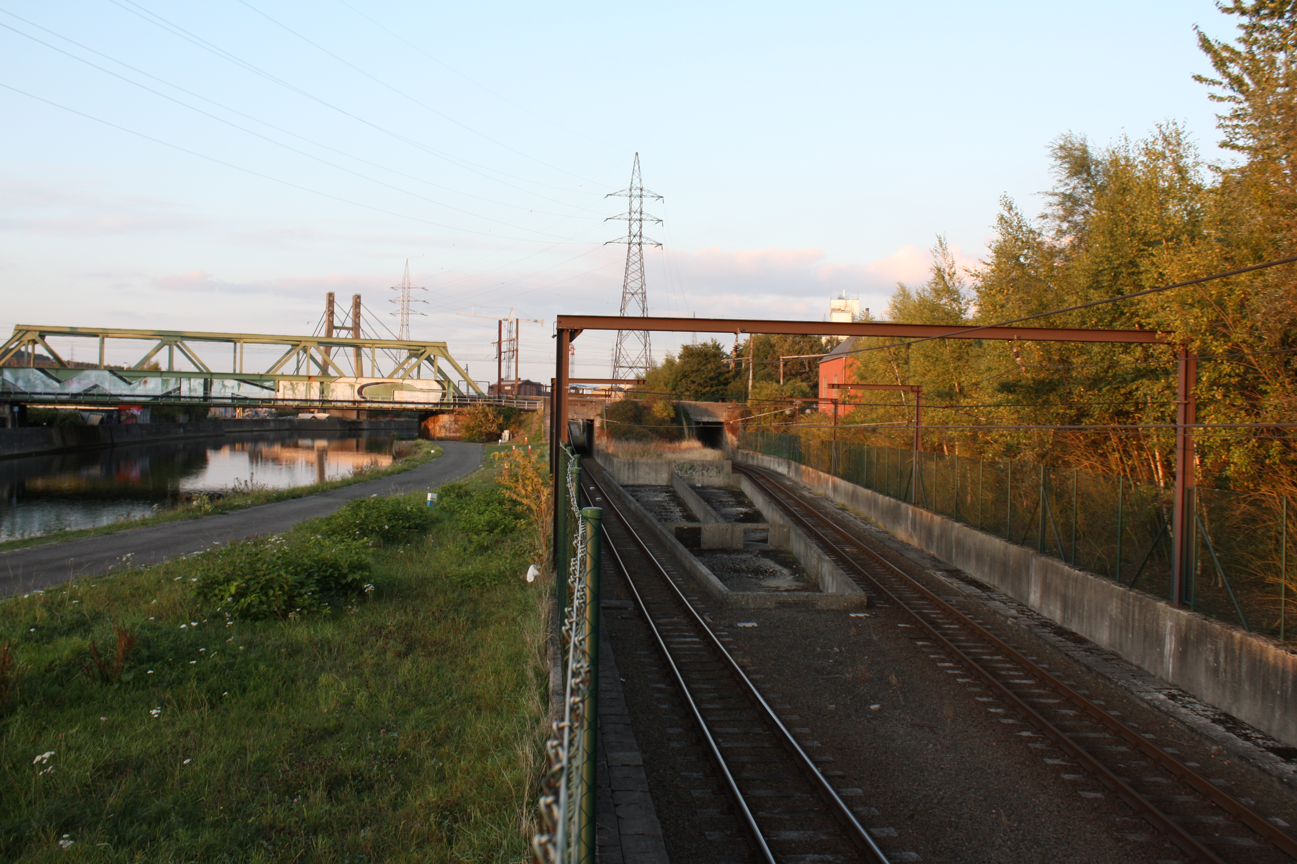 Passage underneath the railway line close by Eau d'Heure and Marchienne-au-Pont. Beyond the lines crosses the canal on a bridge. Shot on 2009-09-19 on a tour of Charleroi's subway, kindly hosted by TEC-Charleroi.